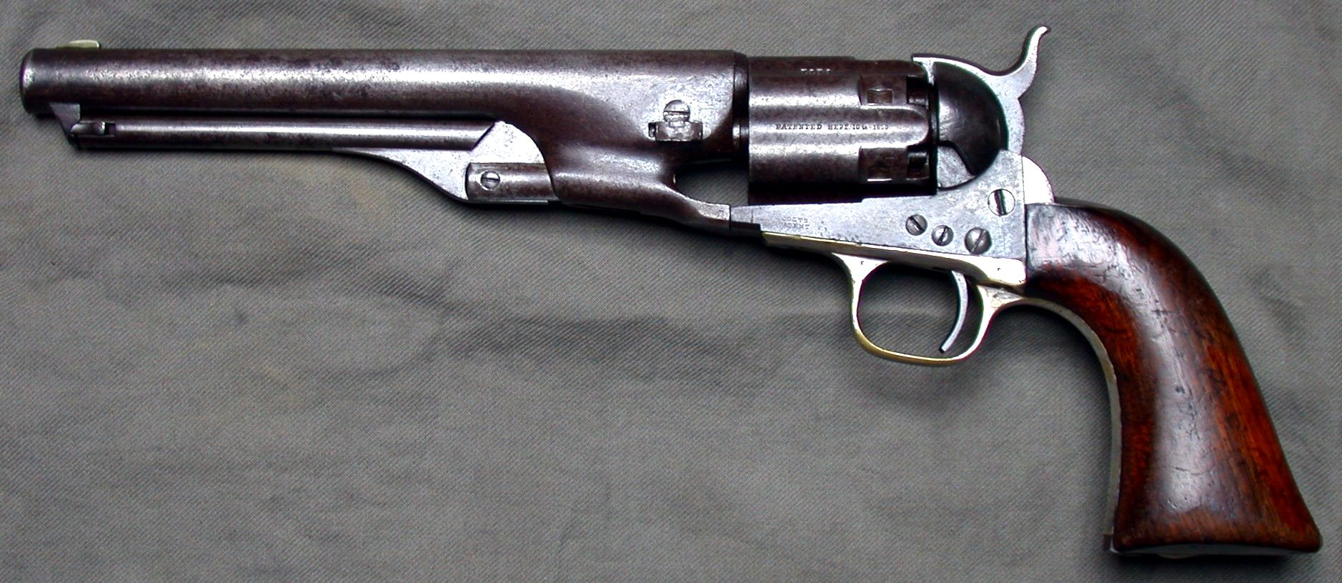 Colt Army 1860, early Model with fluted Cylinder and 7 1/2" Barrel cal .44